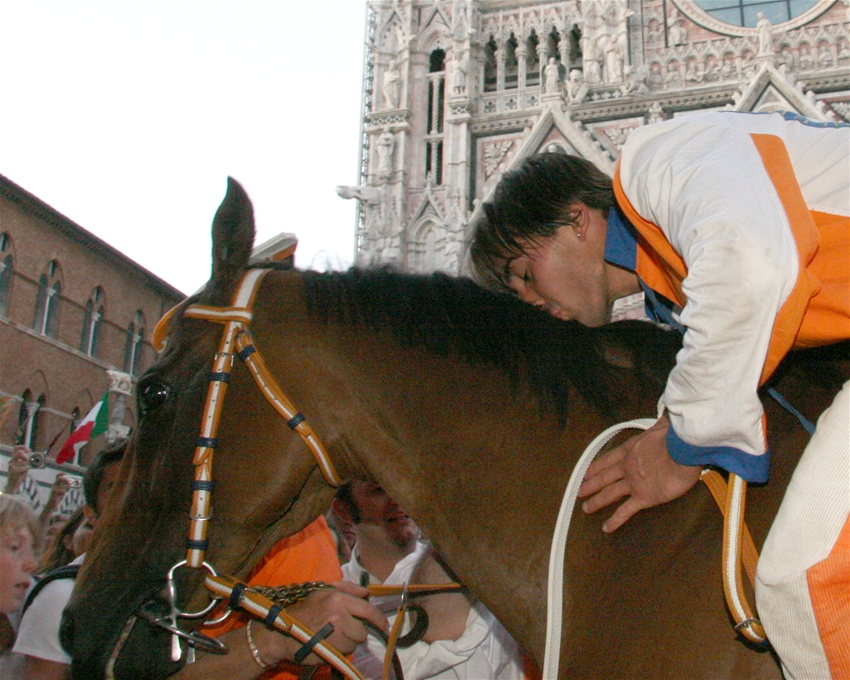 Jockey Jonatan Bartoletti kisses Brento after the victory